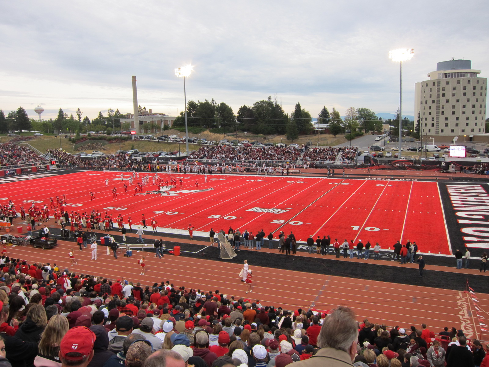 Red turf at Roos Field - nicknamed "The Inferno"